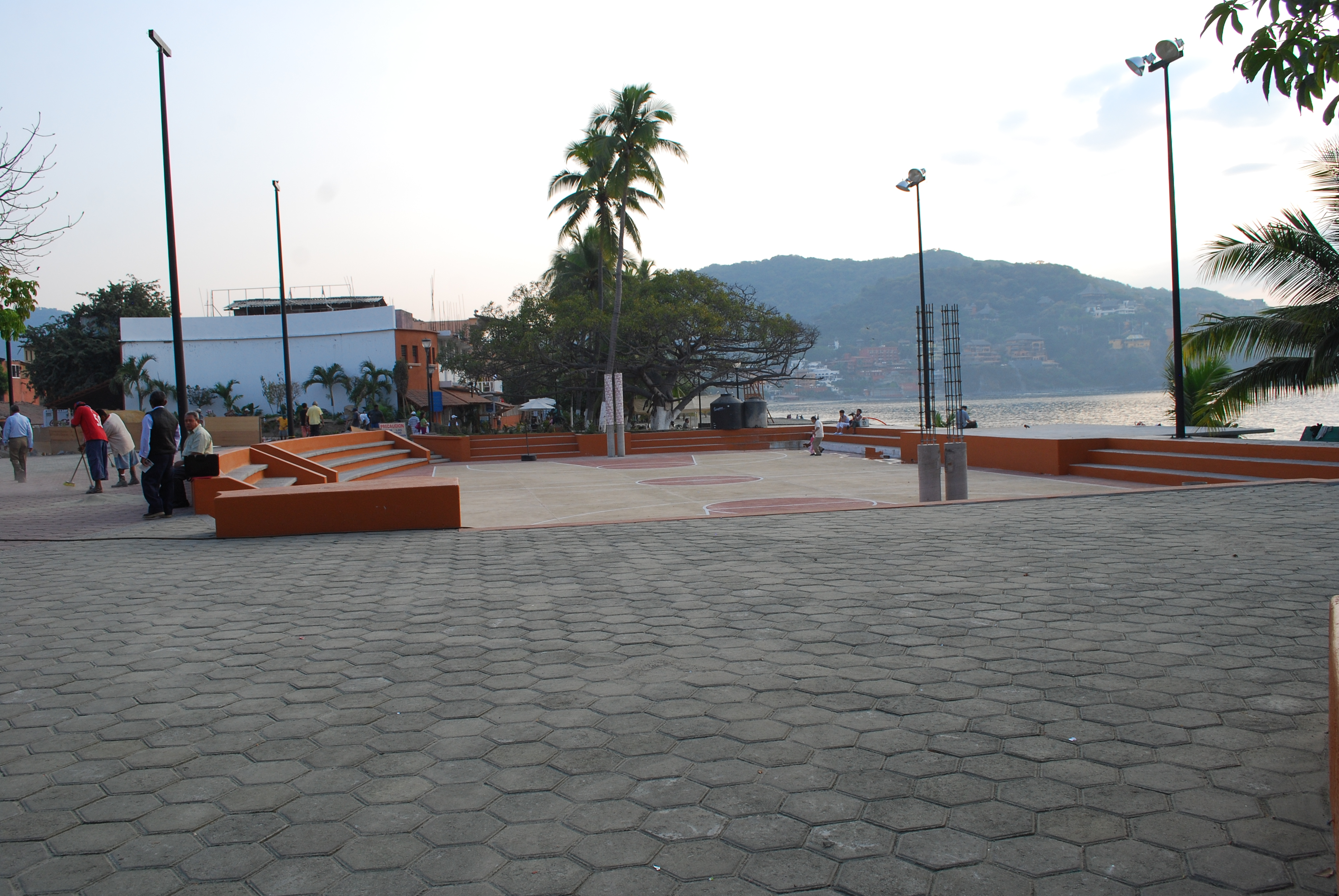 Main plaza with basketball court in Zihuatanejo, Mexico